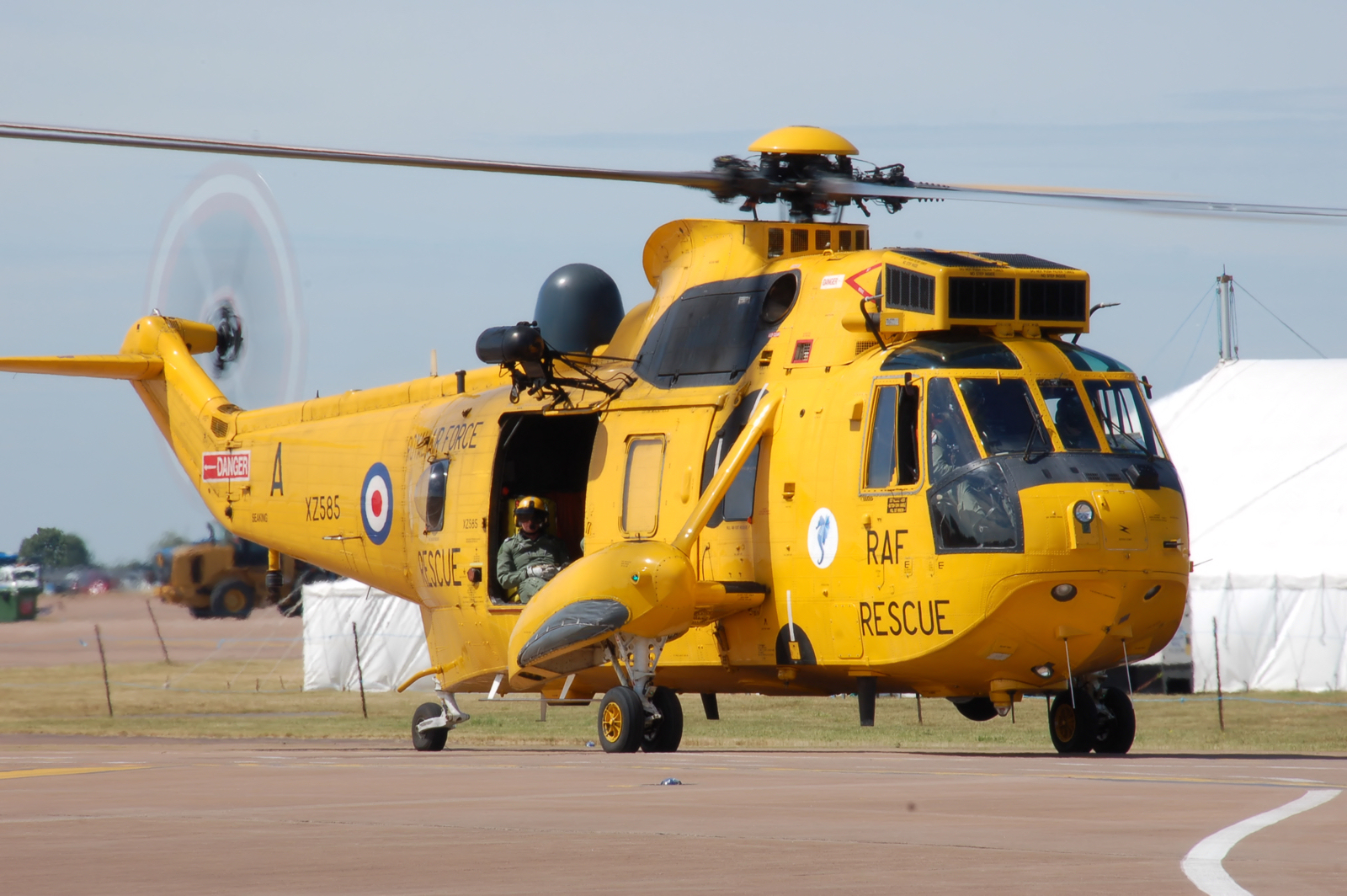 RAF Rescue Sea King HAR3 (XZ585) taxis to the runway on departures day of the 2010 Air Tattoo, Fairford, Gloucestershire, England.